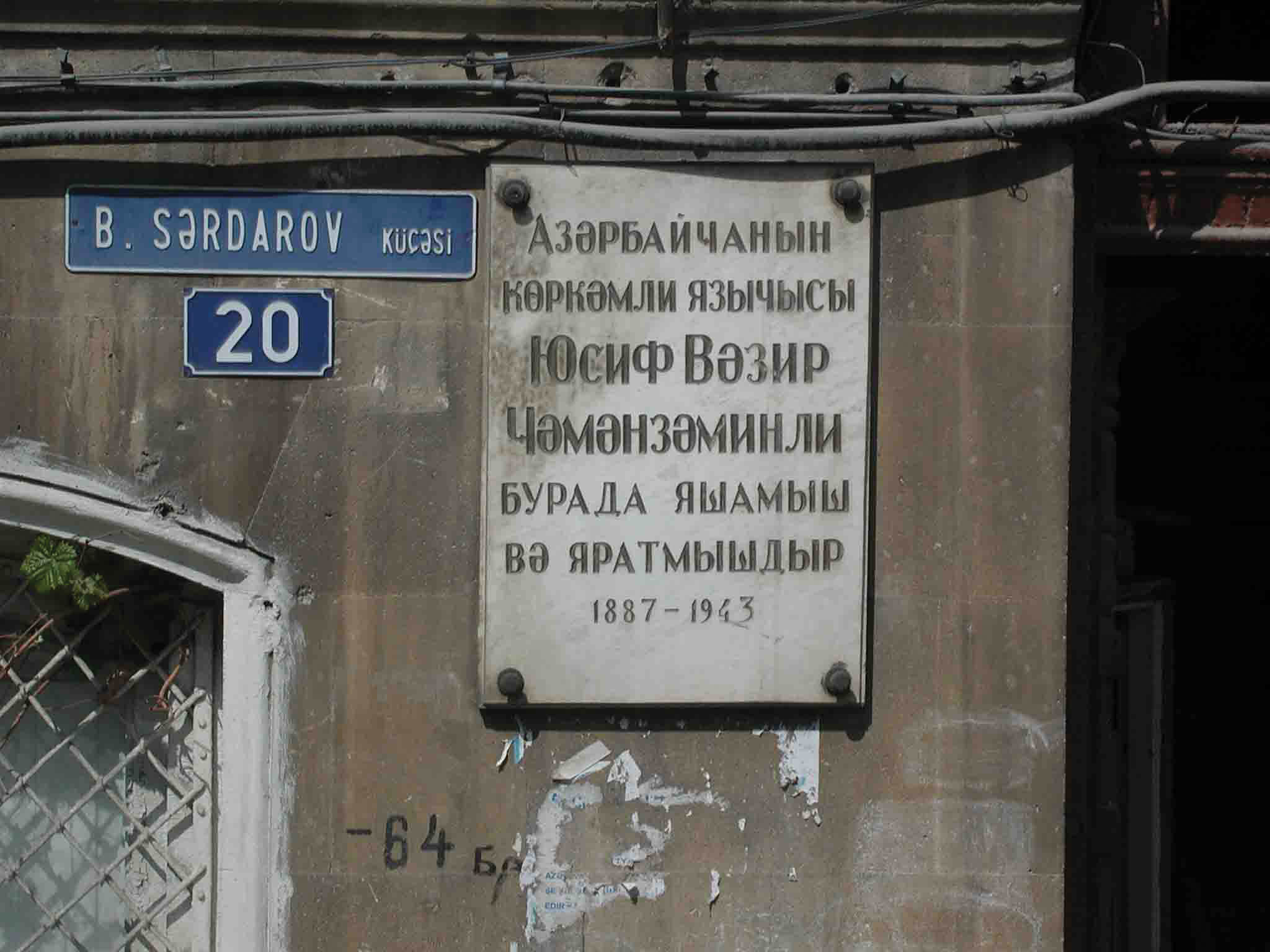 Plaque on building where Azerbaijani writer Yusif Vazir Chamanzaminli lived in Baku - 20 Sardarov Street. Plaque on building from the Soviet period reads in Azeri (Cyrillic script): "Prominent Azerbaijani writer Y.V. Chamanzaminli (1887-1943) lived and created his literary works here." Residents living in the building feared that it would soon be demolished and replaced with a high-rise apartment complex, Photo: 2008.